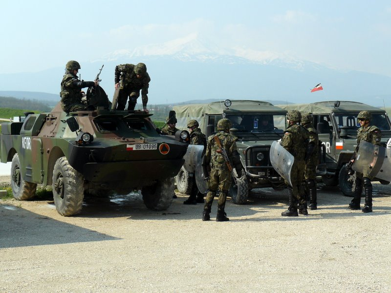 Polish Military Contingent in Kosovo